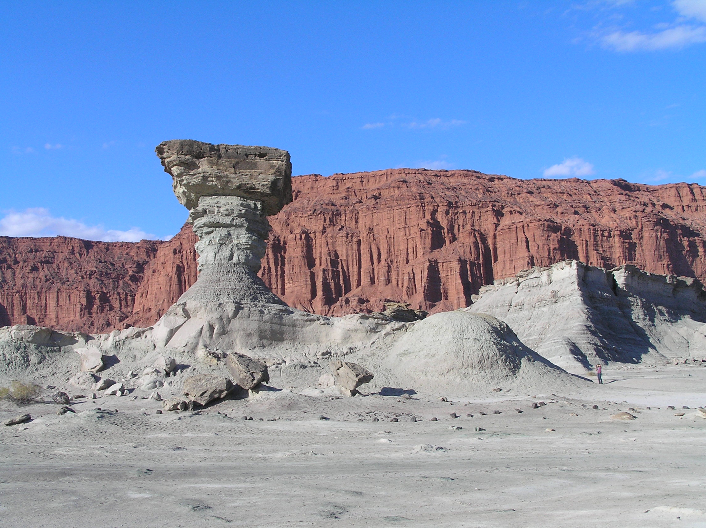 Ischigualasto or Moon Valley, the fungus training, Province of San Juan, Argertina